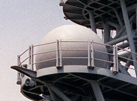 USS Nicholson (DD-982) AN/SPQ-9 antenna radome. Original image caption:A portside view of the USS NICHOLSON (DD 982), its bridge, Phalanx Close-In Weapons System (CIWS) and forward main mast electronic sensor array.